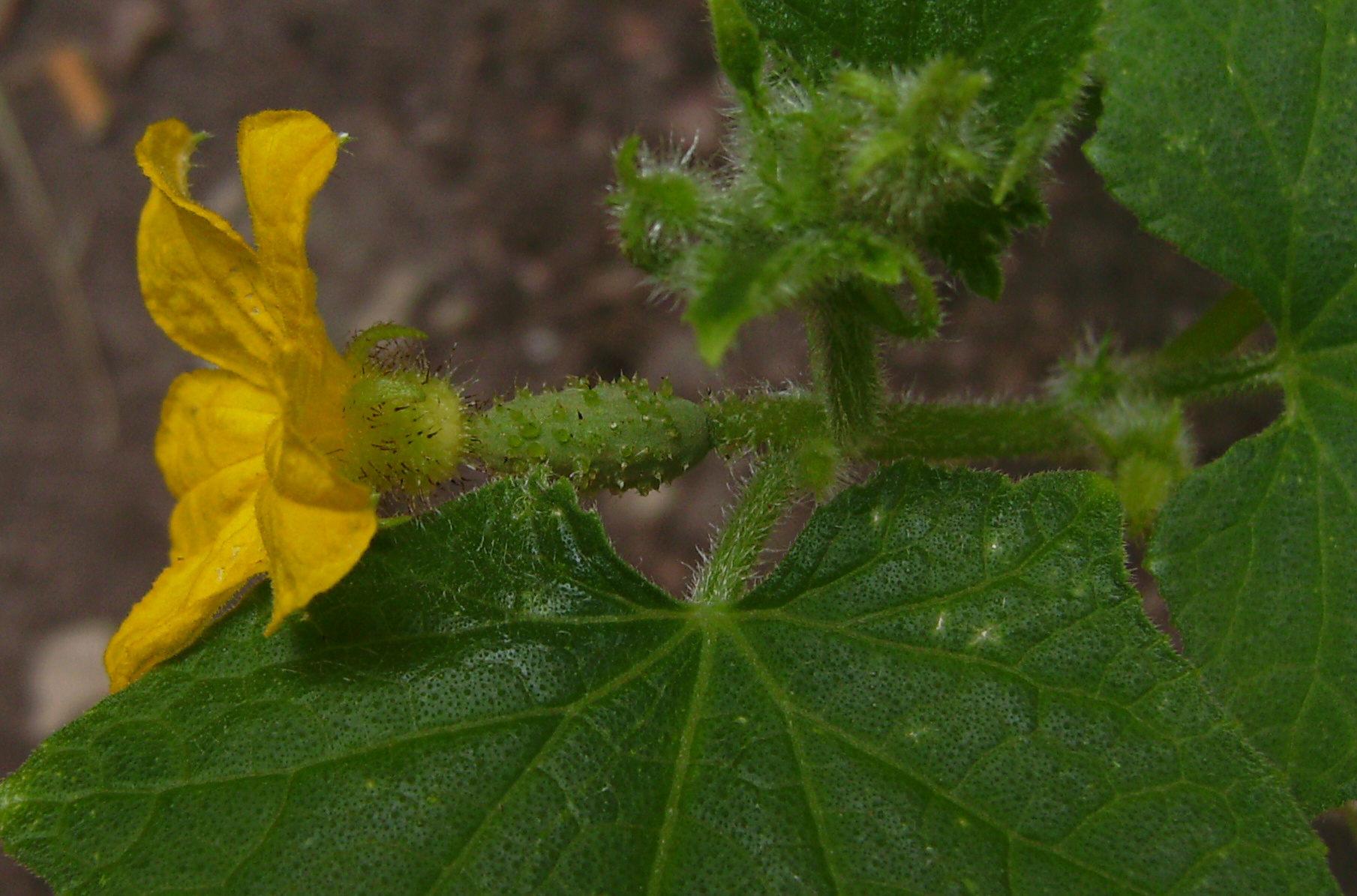 Cucumis sativus female floer, cultivated plant,Castelltallat, Catalonia